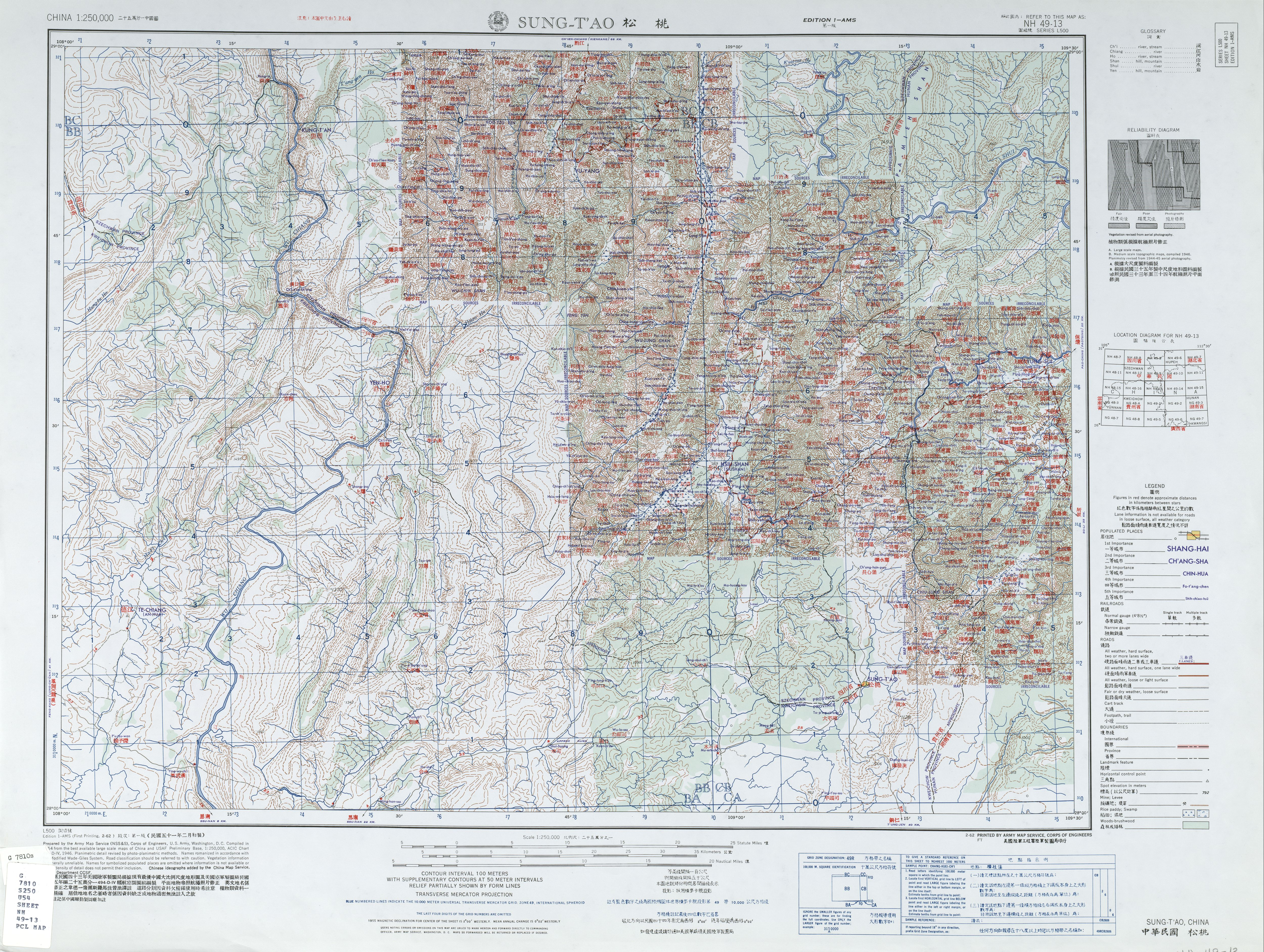 China AMS Topographic Maps